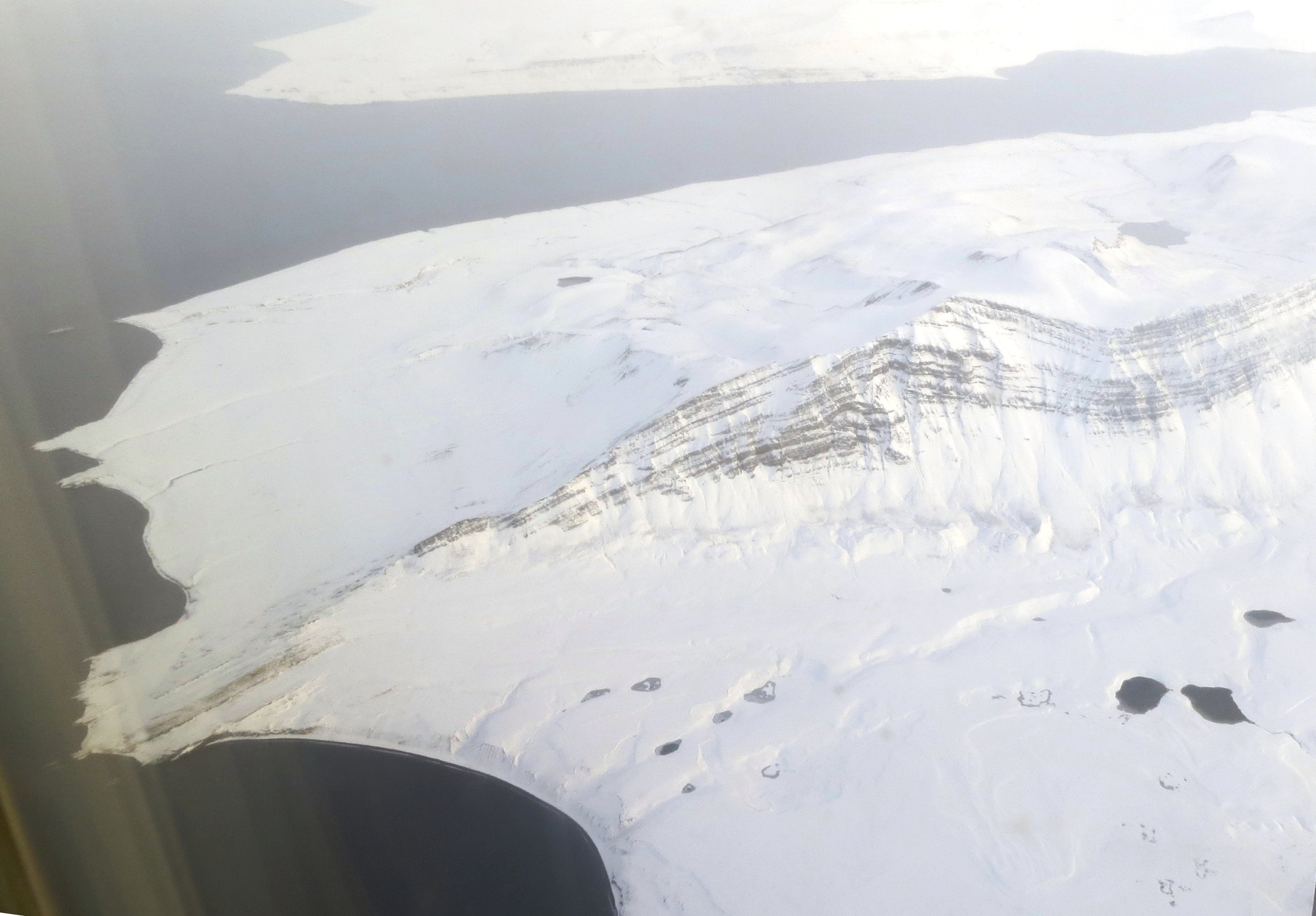 Aerial view of the western part of Nordenskiöld Land, the areas between Bellsund, Grönfjorden and Isfjorden. Western Spitsbergen, Svalbard.